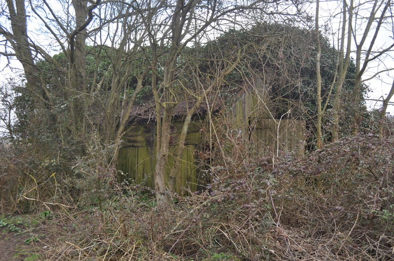 Blythburgh Coal/Goods Shed The old coal/goods shed, the last remaining Southwold Railway building left on the planet. This building was built around the late 1870s for the station at Blythburgh. It is of wooden construction, thus it is in a very poor state with rot and brambles. The railway was narrow gauge at 3ft, running from Southwold to Halesworth (8.75 miles). After road competition and a run down of trade the board cut their losses and closed the line in 1929. Track was ripped up in the second world war.